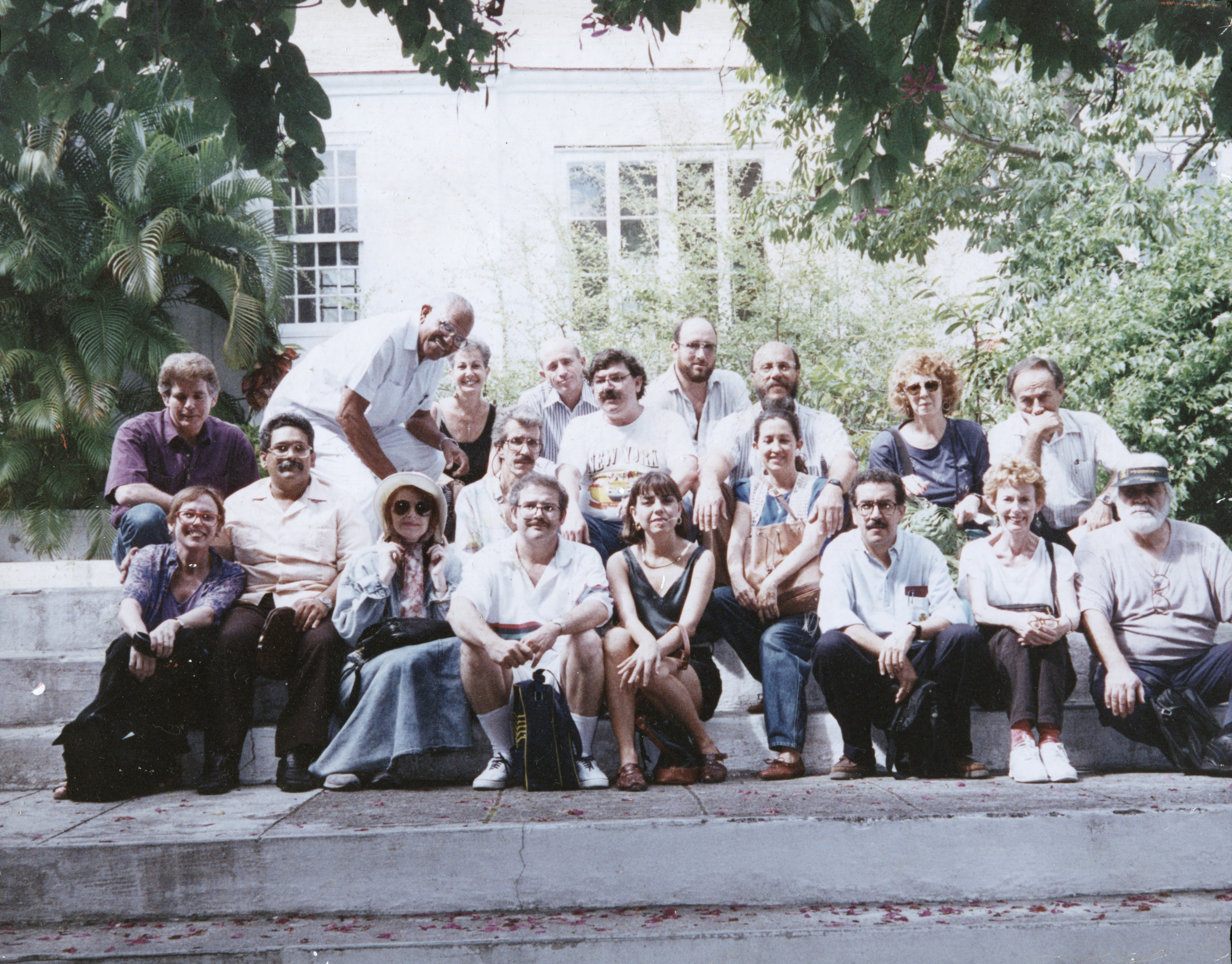 Members of the International Association of Crime Writers outside of Ernest Hemingway's house in Havana, Cuba, in 1994. To the far right is Daniel Chavarría; above him is Rafael Ramírez Heredia. Paco Ignacio Taibo II is in the center; to his left is Rodolfo Pérez Valero. At the front is Francisco José Amparán.